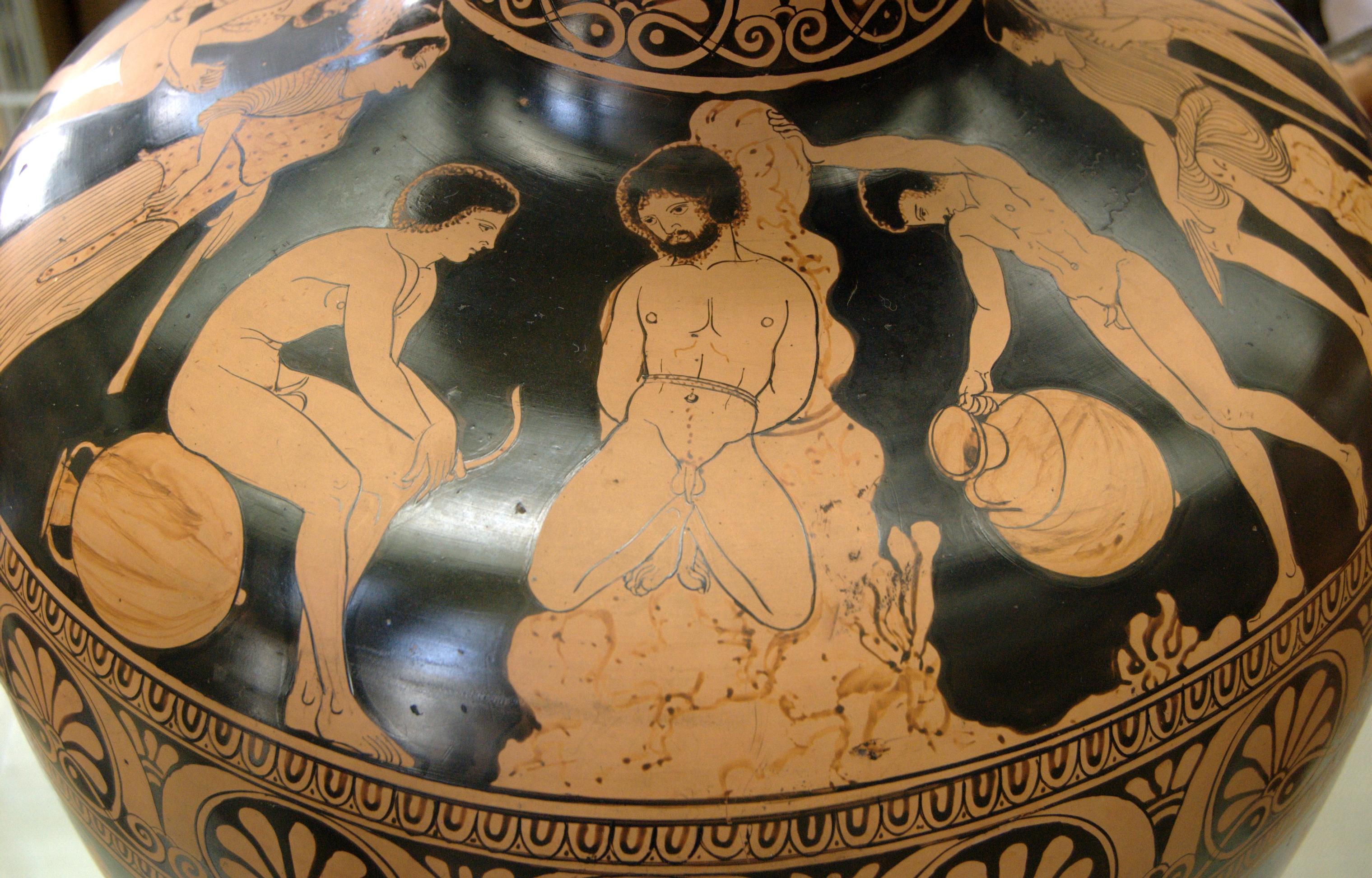 Amycus bound by the Argonauts. Red-figure Lucanian hydria.